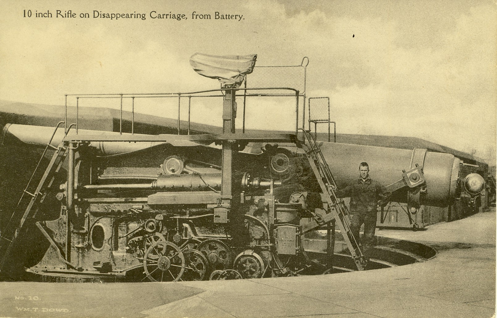 Local Accession Number: PC 179 Description: Postcard photograph of the "breech of a 10 in. rifle" at Fort Greble during World War I. Photographer: Unknown Source: Donated by Jean Brannum Nichols Size: 3x5 Medium: Print, Black and White Date: c. 1917- 1918